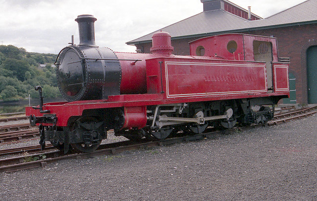 Outside the Foyle Valley Railway Museum, Londonderry. The locomotive in the image is a 3ft narrow gauge locomotive built for the County Donegal Joint Railways Committee (CDJRC) in 1907 by Nasmith and Wilson, originally numbered No. 16 and named "Donegal". She was superheated in 1926 and then renamed and renumbered as No. 4 "Meenglas" in 1937. The locomotive was withdrawn from service on the 31-12-1959, when the CDJRC ceased to exist as a railway company.